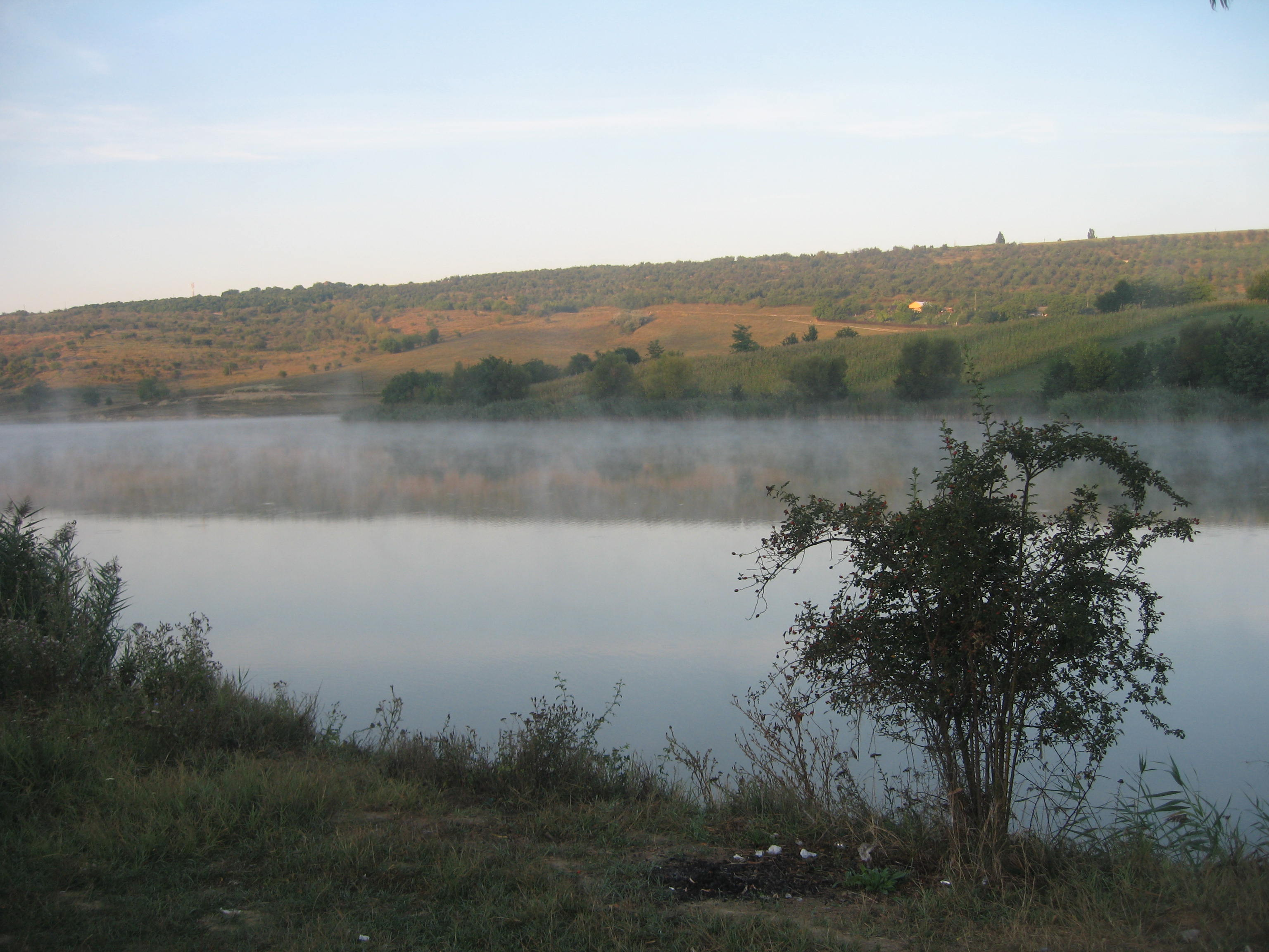 Barajul Aroneanu